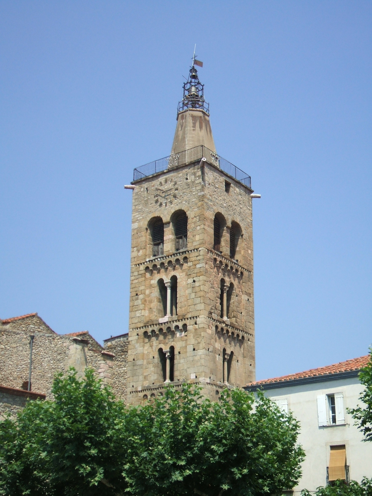 Prades : Saint-Peter Church (XIIth, rebuild in the XVIIth and XVIIIth centuries), Romanesque bell-tower